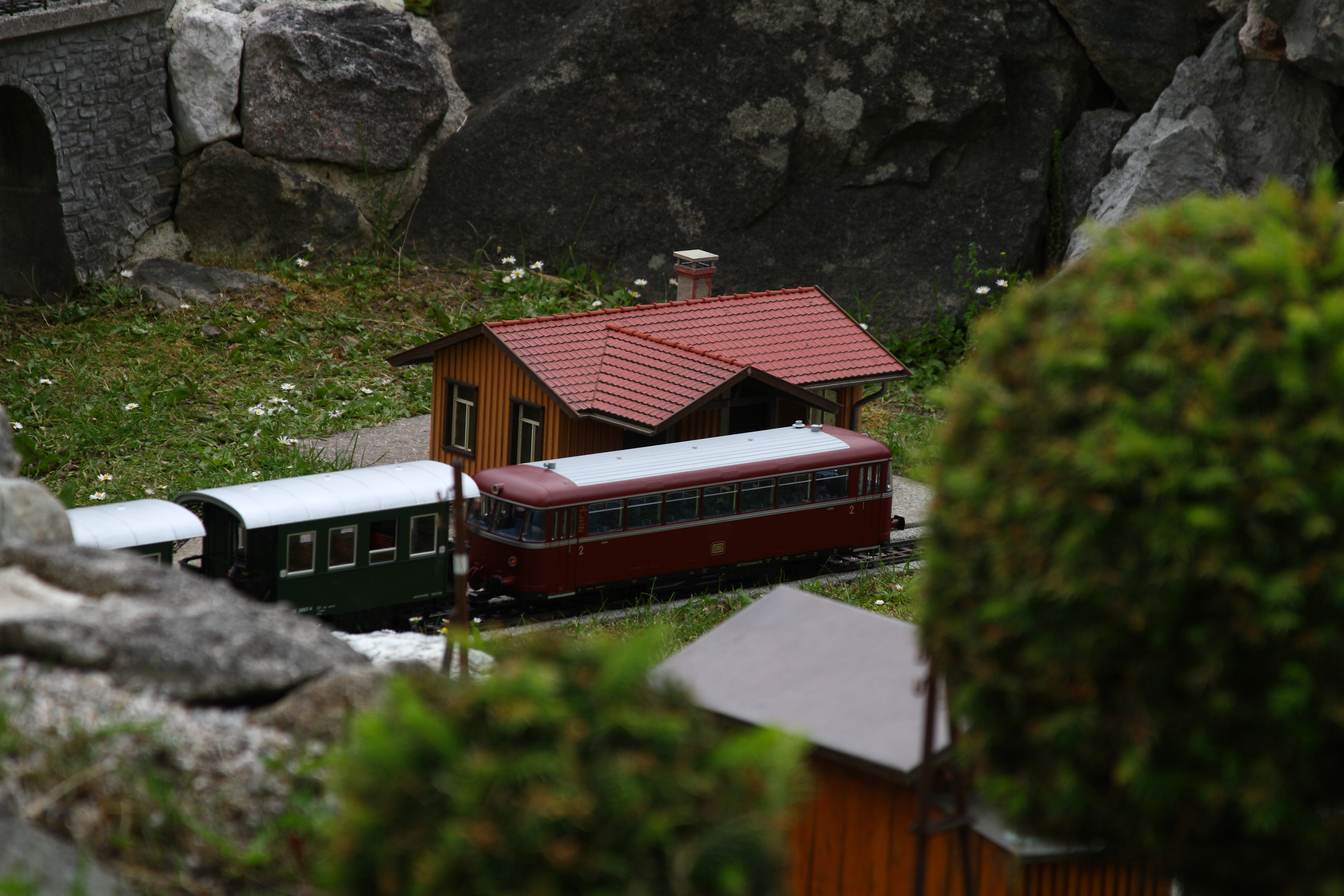 garden railway built in 1904, Schladming, Styria, Austria